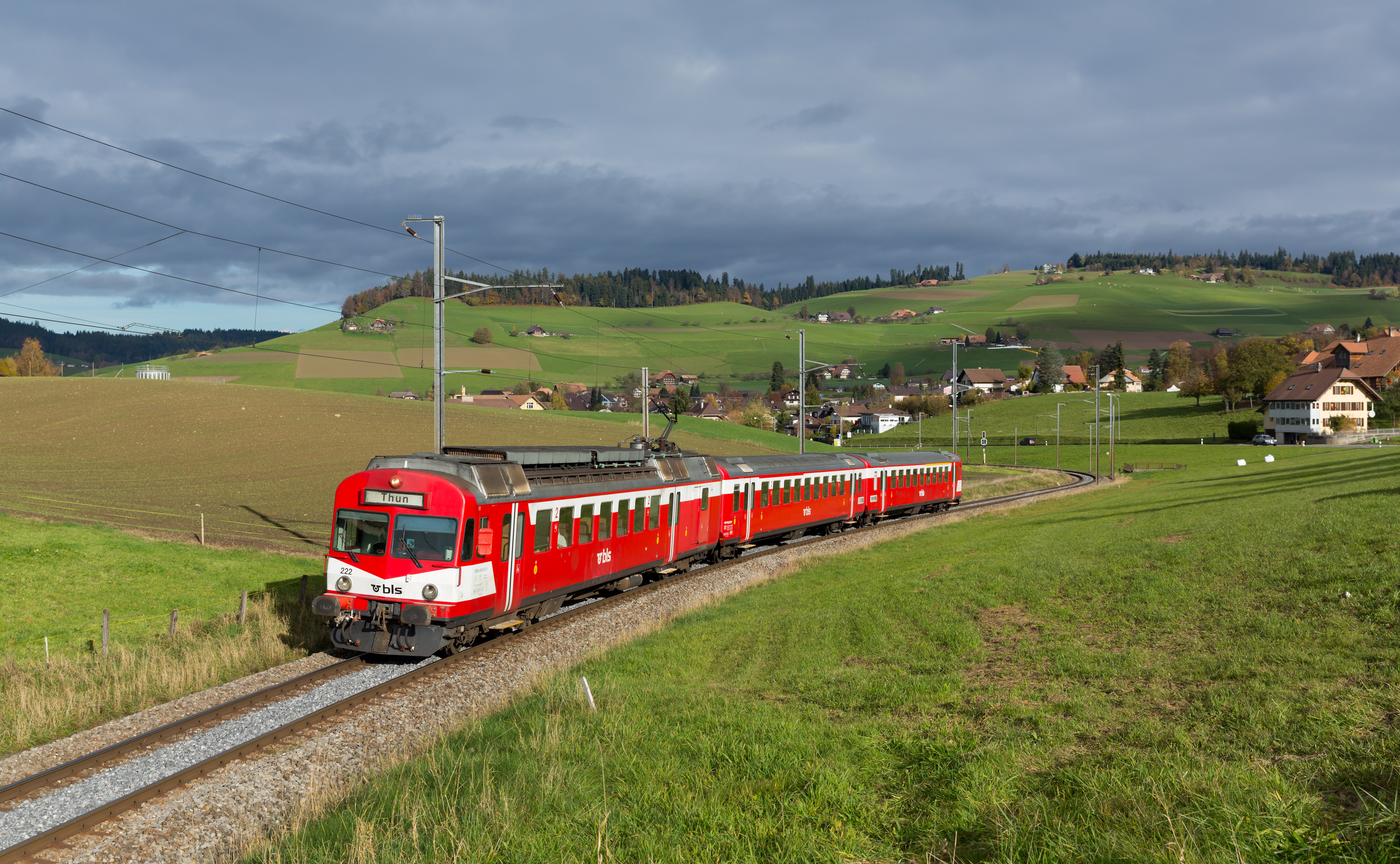 BLS RBDe 566 I EMU on a RegioExpress service from Solothurn to Thun. Picture taken near Biglen, Switzerland.